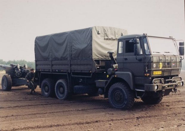 DAF YHZ 2300, 6t, 6x6 single rear tyres. Artillery Tractor with 155mm gun M114/39 (The Netherlands (1987-2003).